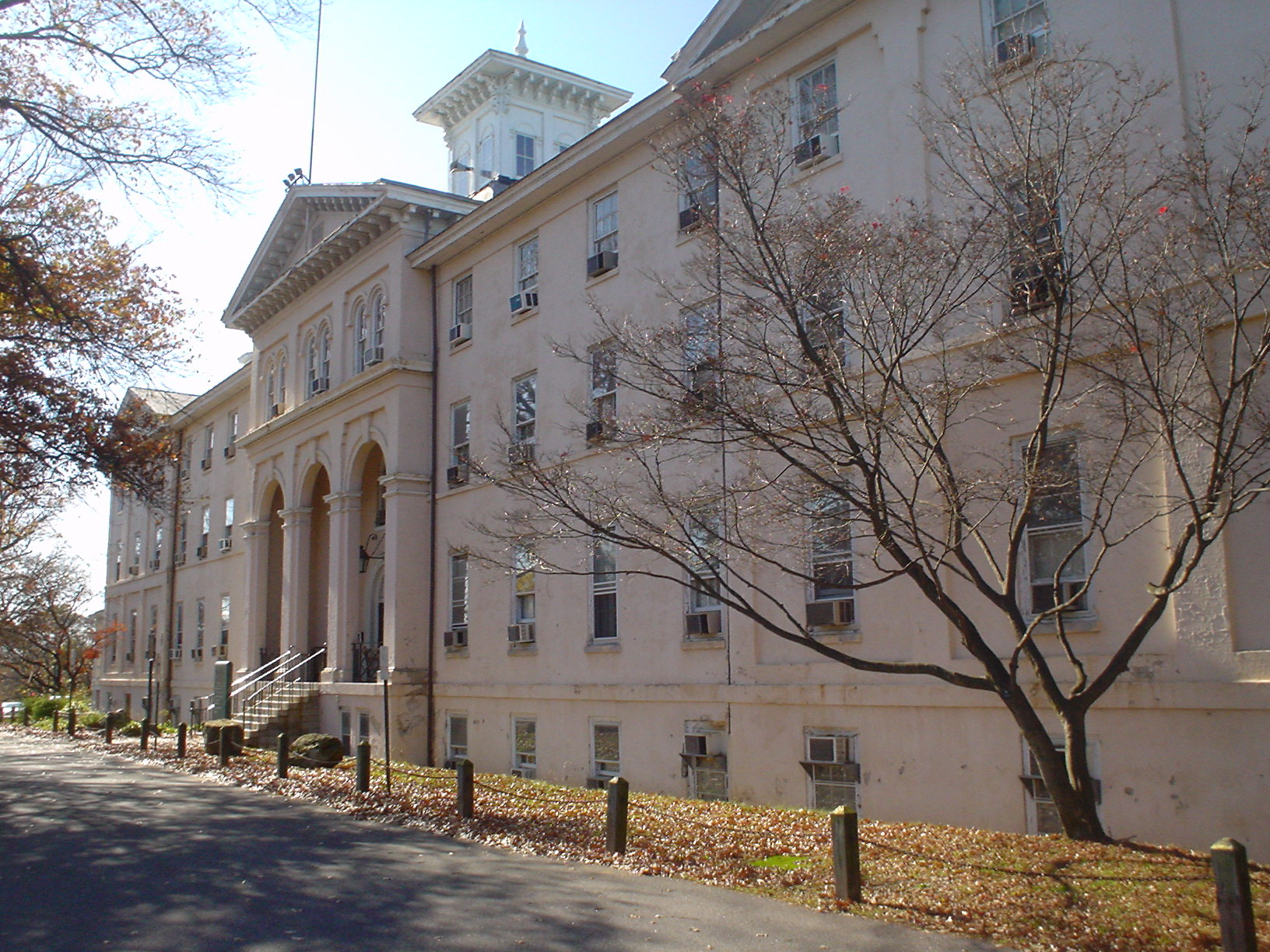 Old Main Building of Crozer Theological Seminary — in Delaware County, Pennsylvania. Where Martin Luther King, Jr. attended. On the National Register of Historic Places.